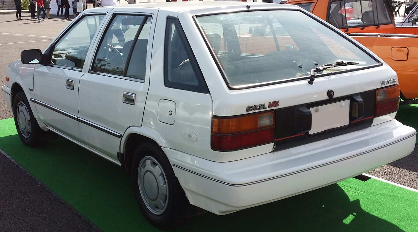 Hyundai Excel